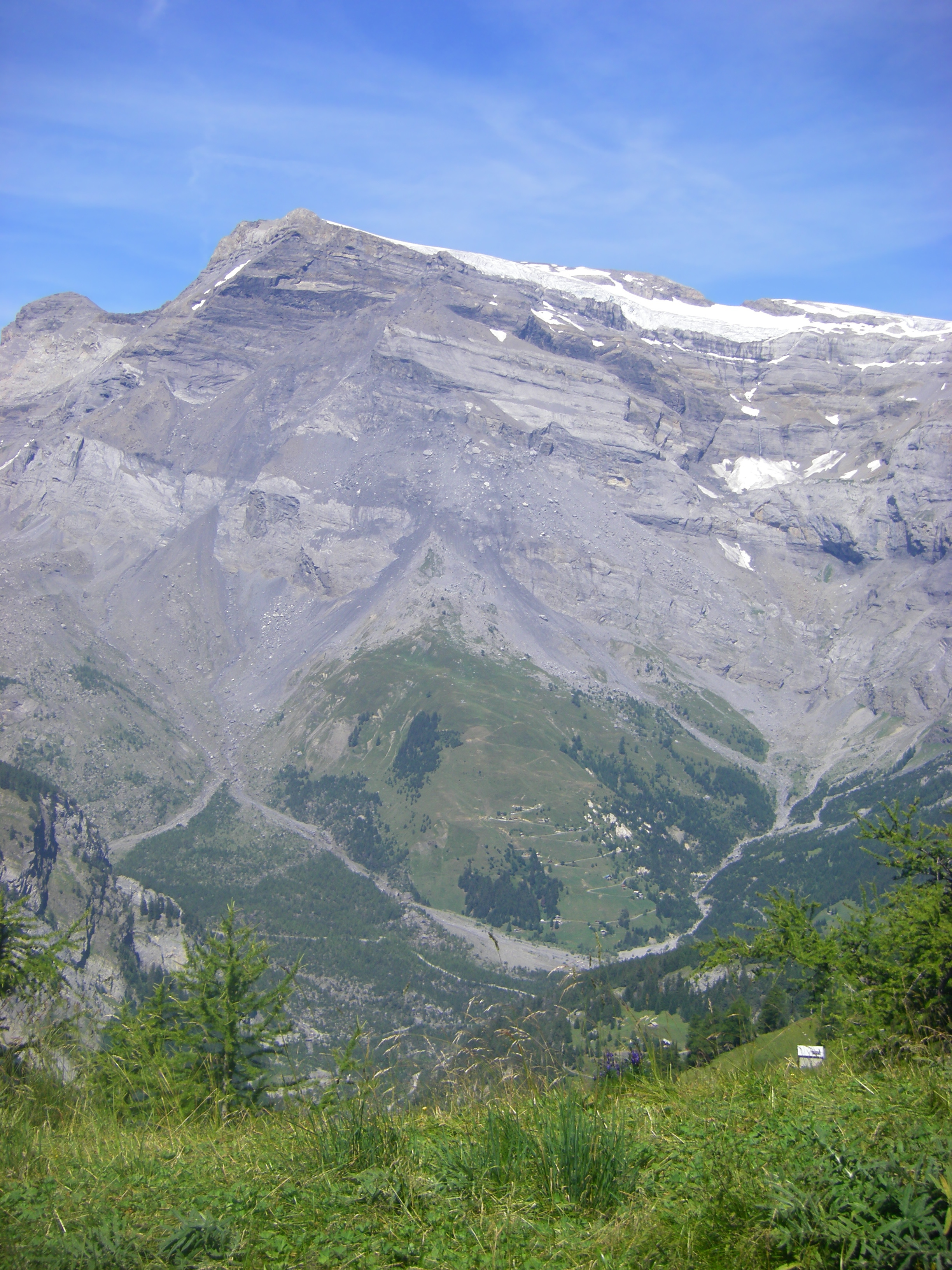 The debris cone of the rockslides at Derborence, Valais, Switzerland, in 1714 and 1749. View from SE.